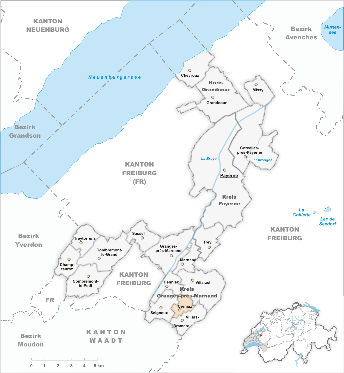 Municipality Cerniaz